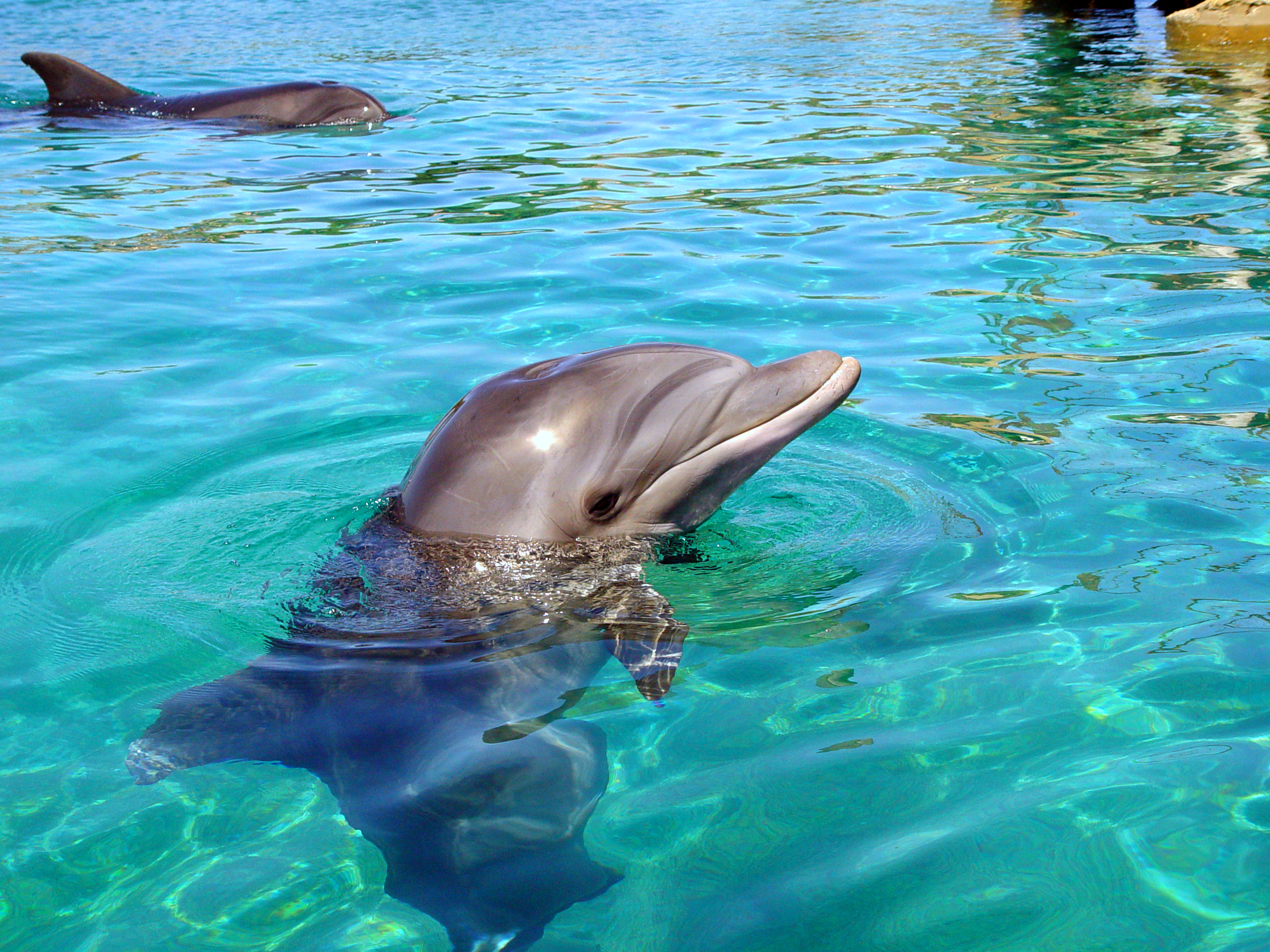 Dolphin, Tourism in Israel